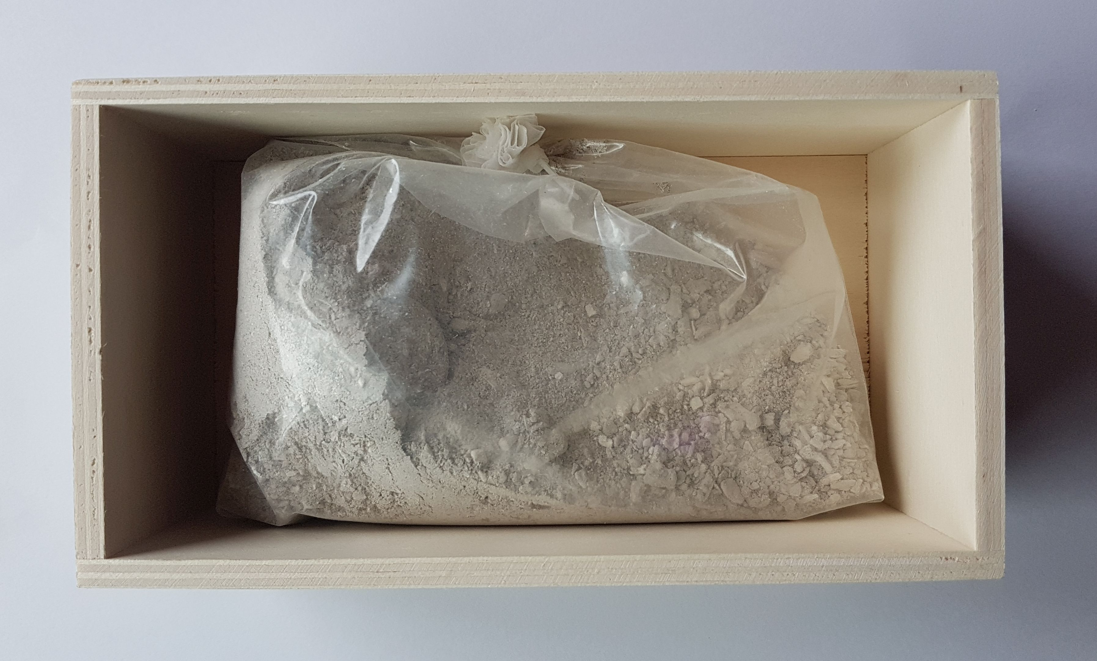 Labrador Amy's ashes after cremation. Live weight 27kg, ash weight 0.7kg.